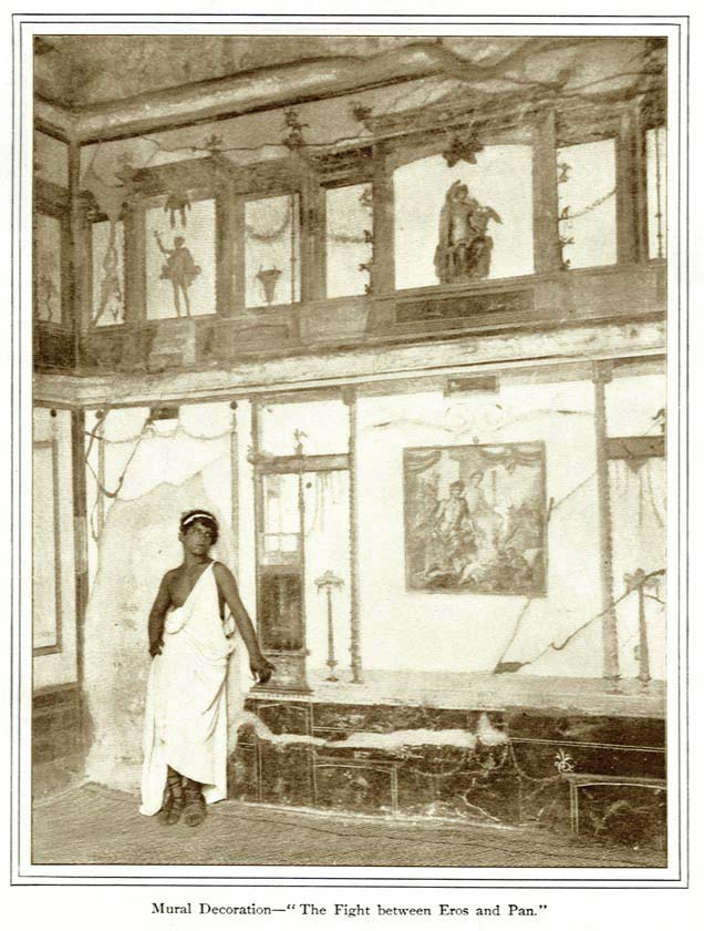 Wilhelm von Plüschow (1852-1930), illustration for A Pompeiian gentleman's home-life by E. Neville-Rolfe, published in the magazine "Schribner's" in march 1898. The model is set in the "Casa dei Vettii" in Pompei, which had just been unearthed and inaugurated. The model in this picture also appears in several images by Wilhelm von Gloeden, whose images showing this same model on Pluschow's terrace must therefore be dating from the same period (1896/8).